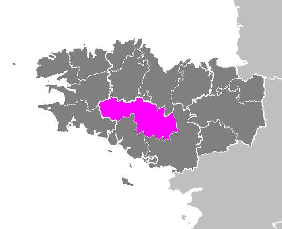 Maps of arrondissements and cantons of France: Arrondissement de Pontivy.PNG